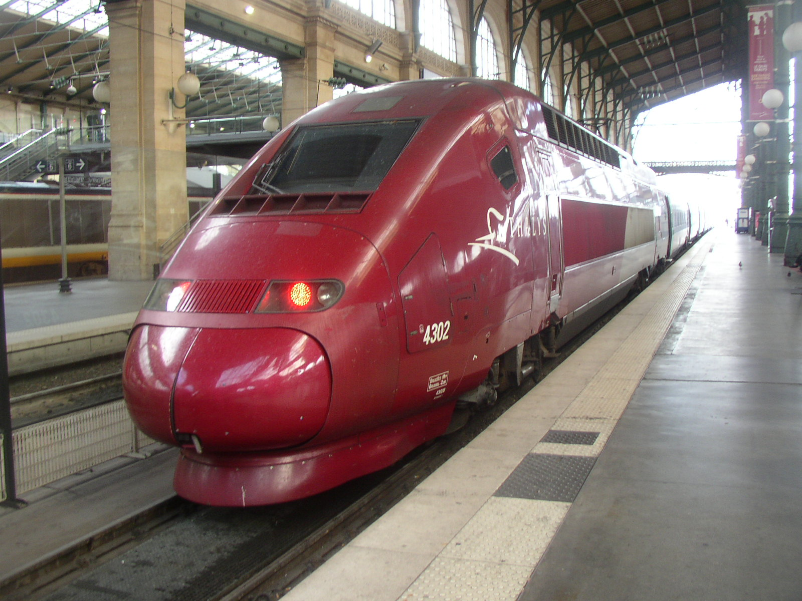 A Thalys PBKA at Paris-Nord station.